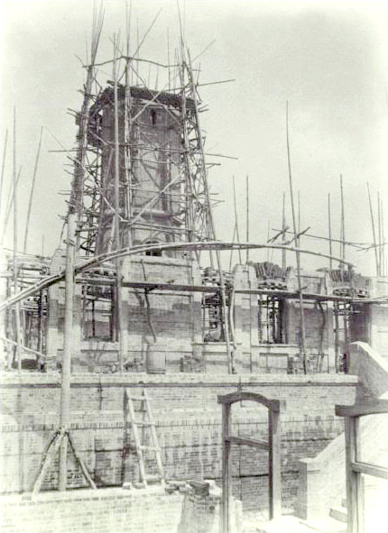 Constructing Cape Bojeador Lighthouse in Ilocos Norte, Philippines, 1890s